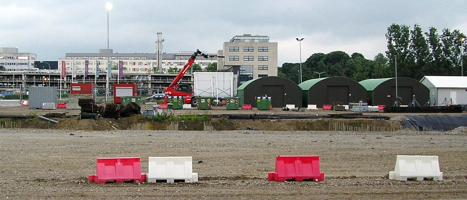 Maastricht, the Netherlands. View of the building site of the failed Campus Randwyck project. The copper-clad building with student housing and sports facilities designed by Spanish architect Santiago Calatrava went way over budget and was discontinued in 2009 while work had already begun. In the background Maastricht University buildings.